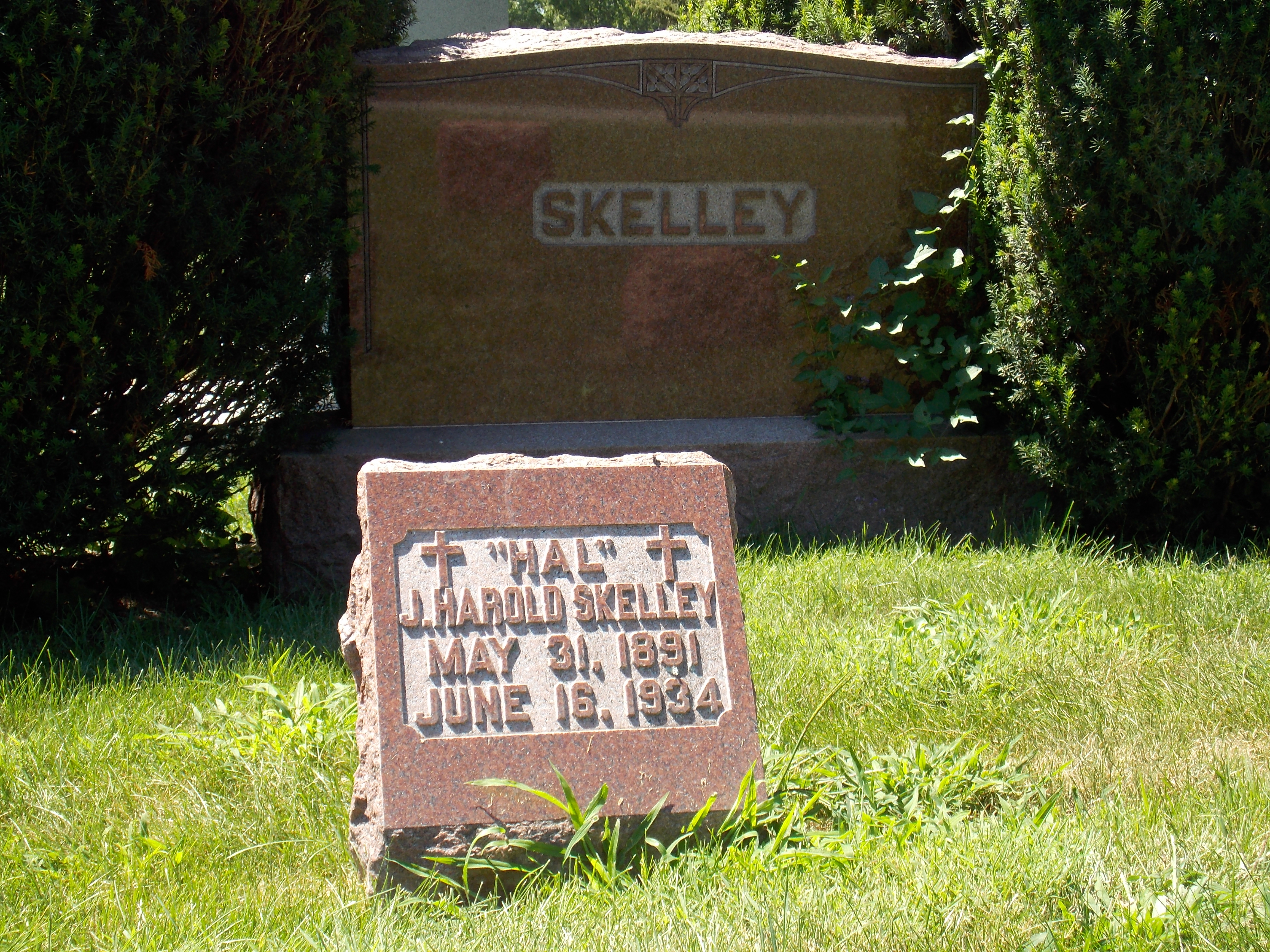 The grave of actor Hal Skelly (Skelley) in Mount Calvary Cemetery in Davenport, Iowa.